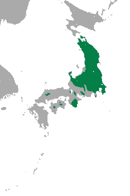 Small Japanese Mole (Mogera imaizumii) range